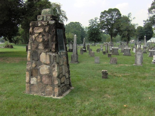 Monument at Shiloh Memorial Cemetery dedicated to Bishop Francis Asbury, who delivered a sermon here in 1808. The plaque reads: On October 20, 1808, Bishop Francis Asbury preached in the small log church which had been erected on this site by the Methodist people of this frontier community sometime previous to that year. In subsequent years, the log church was replaced by two frame buildings which stood on nearby sites, and became known as the Shiloh Methodist Episcopal Church. The last building was removed in 1928.